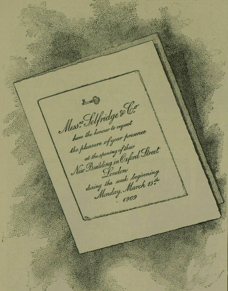 Advertisement for the opening of Selfridge's store in London in 1909